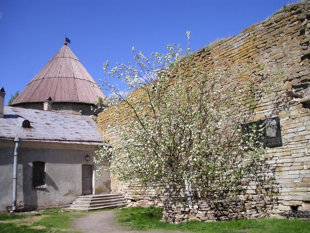 Lenin's brother, Alexander Ulyanov, who attempted to assassinate Emperor Alexander III, was executed here. Fortress "Oreshek"